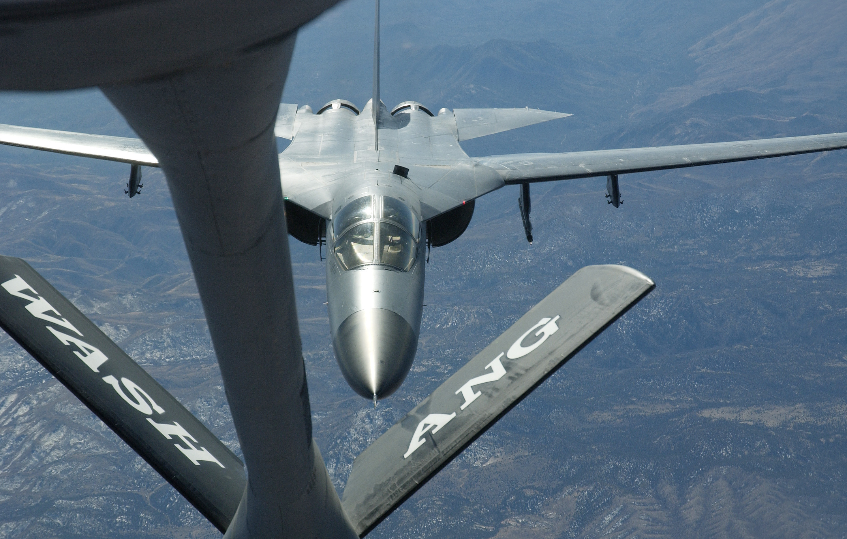 A Royal Australian Air Force F-111 approaches the refueling boom of a U.S. Air Force KC-135 Stratotanker during an in-flight refueling evolution in the skies over the Nevada Test and Training Range on Feb. 14, 2006. The two aircraft and their crews are participating in training exercise Red Flag 06-1. Conducted by the 414th Combat Training Squadron, Red Flag tests the aircrewsÃ­ war-fighting skills in realistic combat situations and involve units of the U.S. Air Force, Army, Navy, Marine Corps, as well as units of the United Kingdom and Australia.